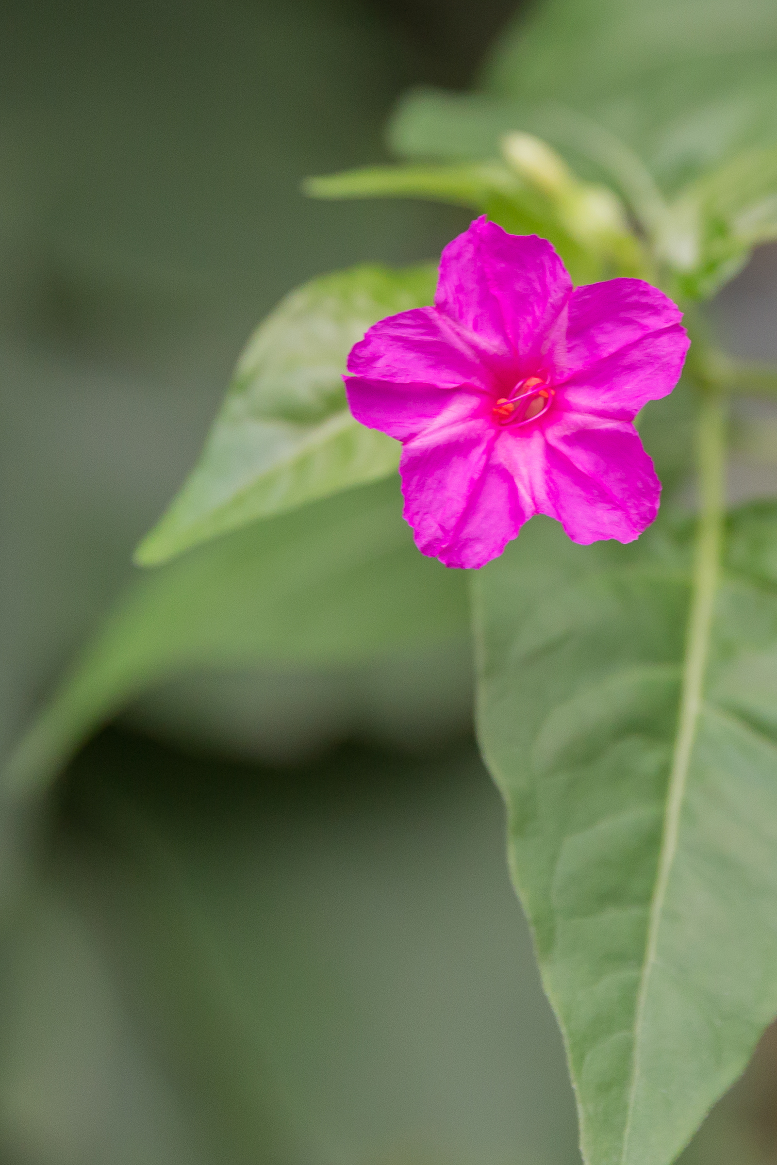 Mirabilis jalapa (Four o'clock flower) in Saint-Aignan-sur-Cher, France.